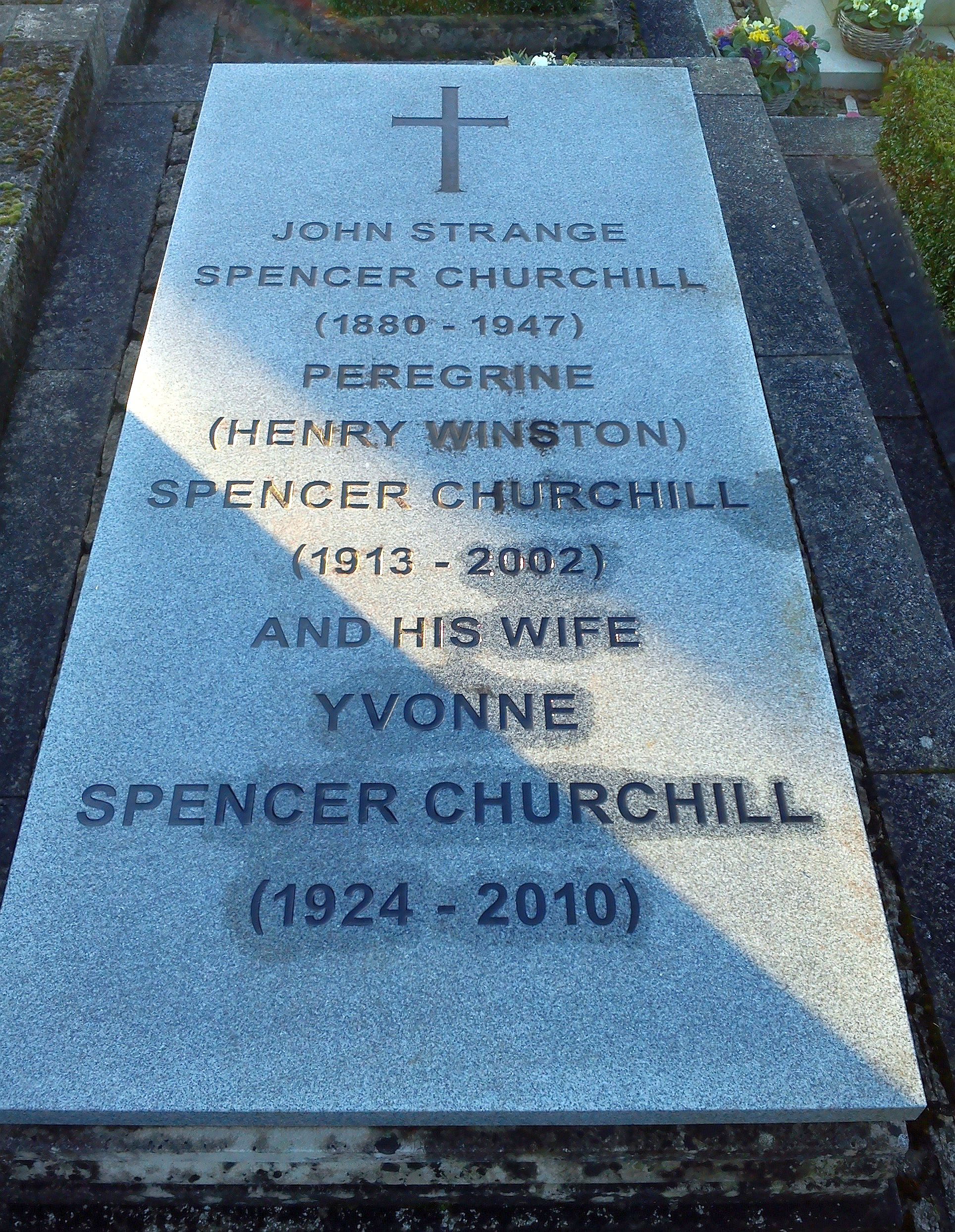 Bladon, Oxfordshire - St Martin's Church - churchyard, grave of John Spencer-Churchill, Peregrine Spencer-Churchill, Yvonne Spencer-Churchill